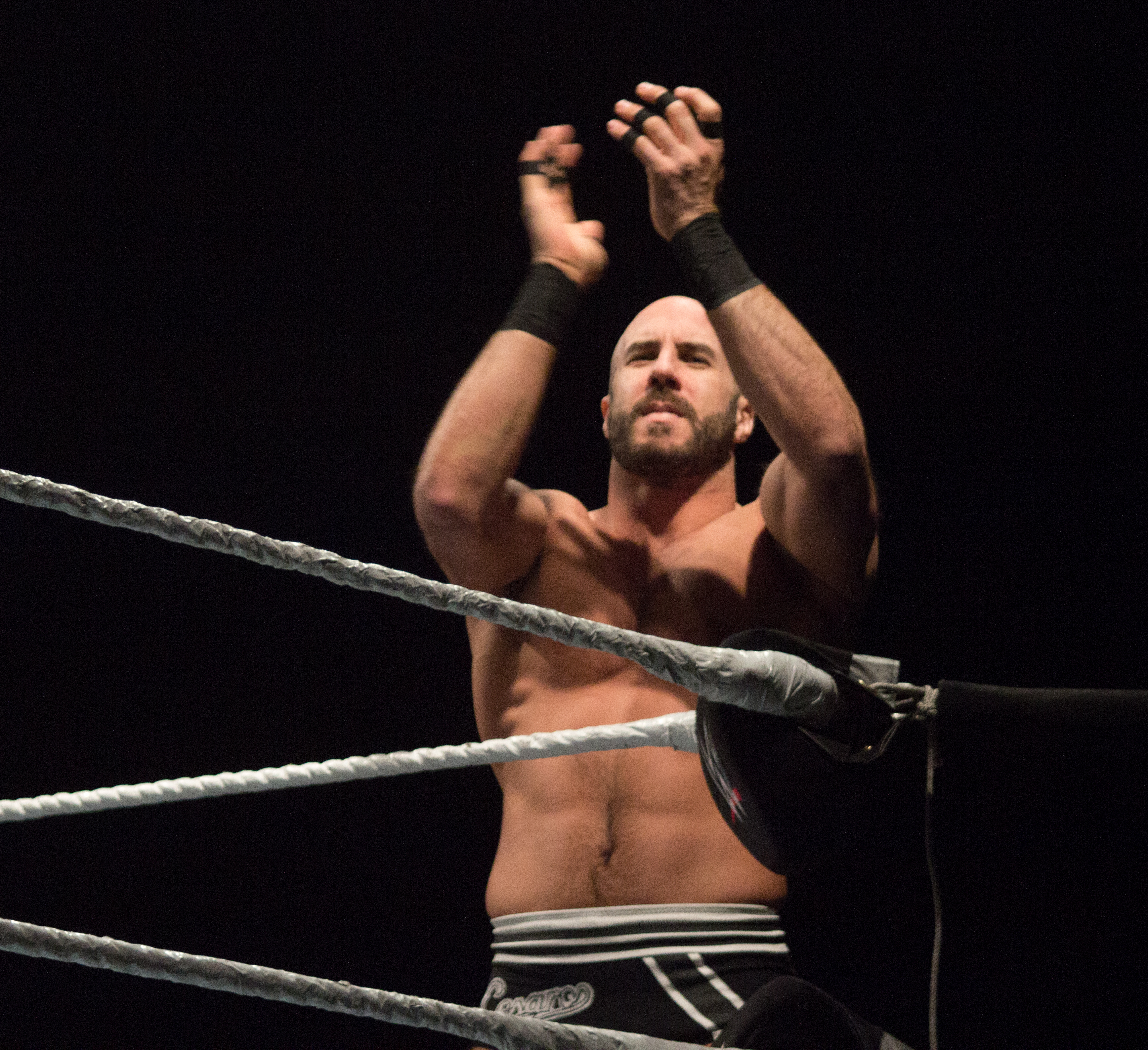 WWE House Show - Garrett Coliseum - 1/10/15